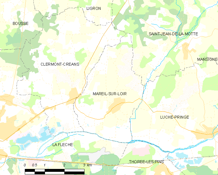 Map of French municipality